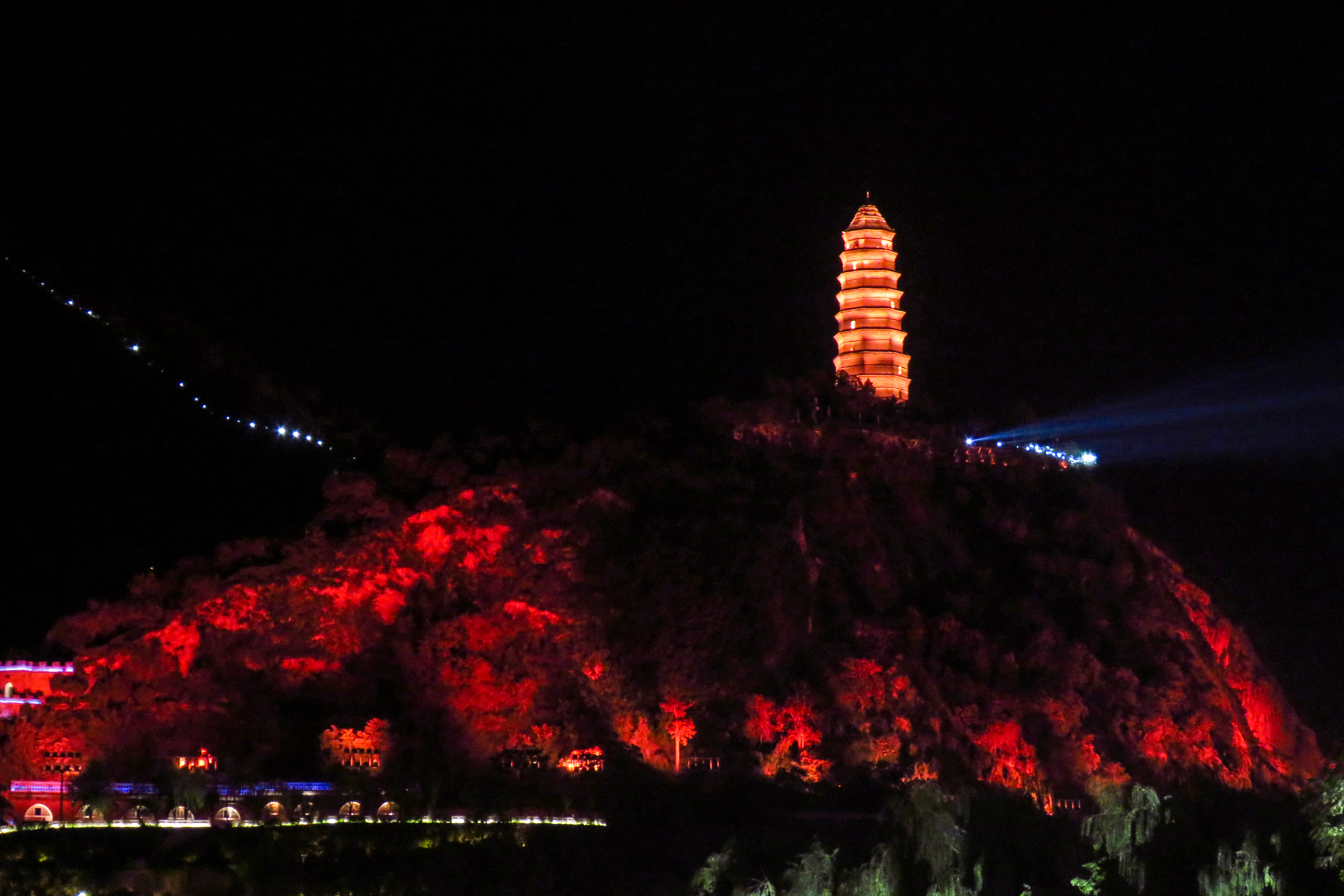 Just arrived...